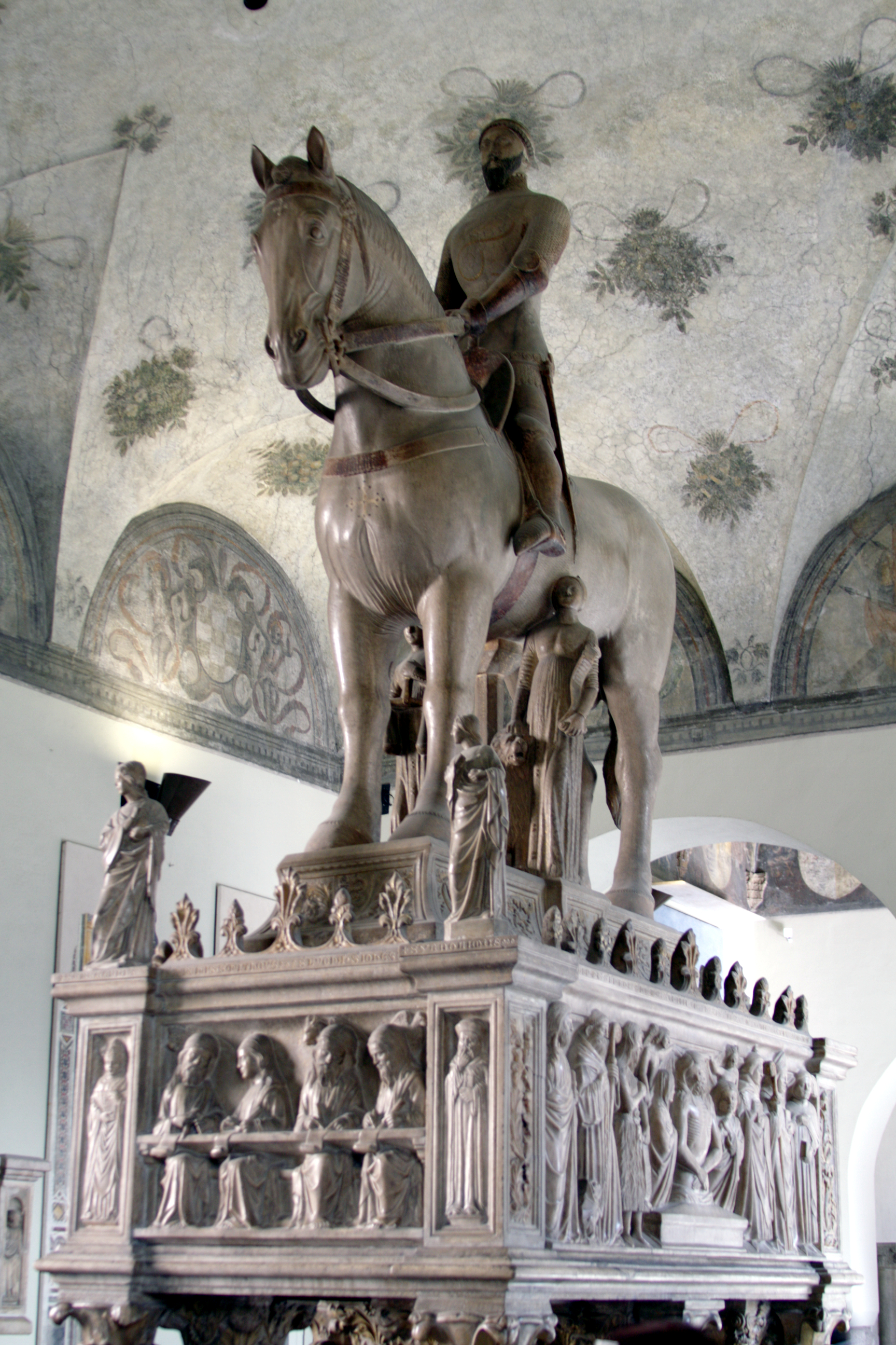 Museo d'arte antica (Milan)